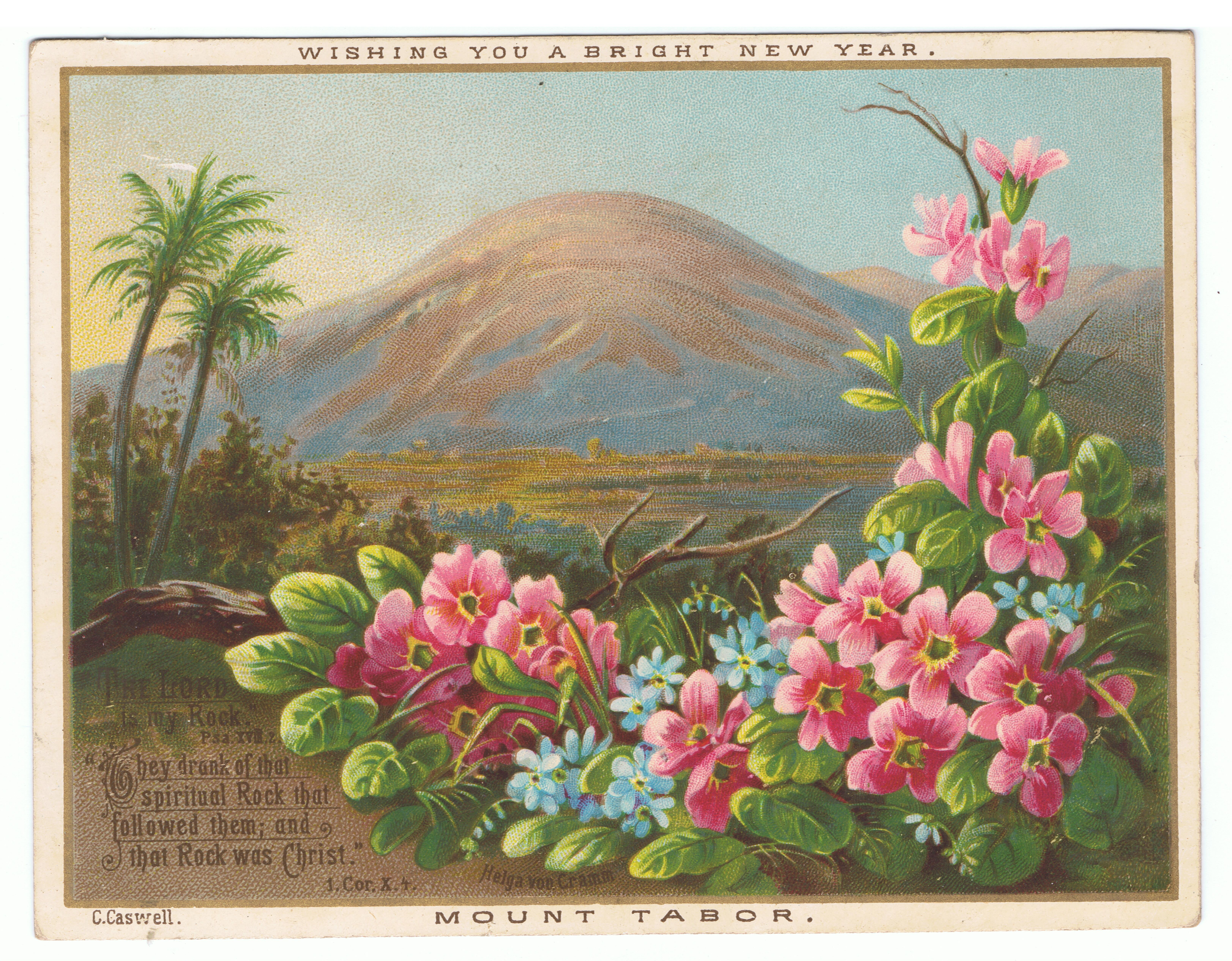 Scan (by me, R. de Salis, Rodolph (talk) 23:16, 16 January 2015 (UTC)) of Mount Tabor, by Helga von Cramm. New year chromolithographic card. C. Caswell. (4 x 5.125 inches).